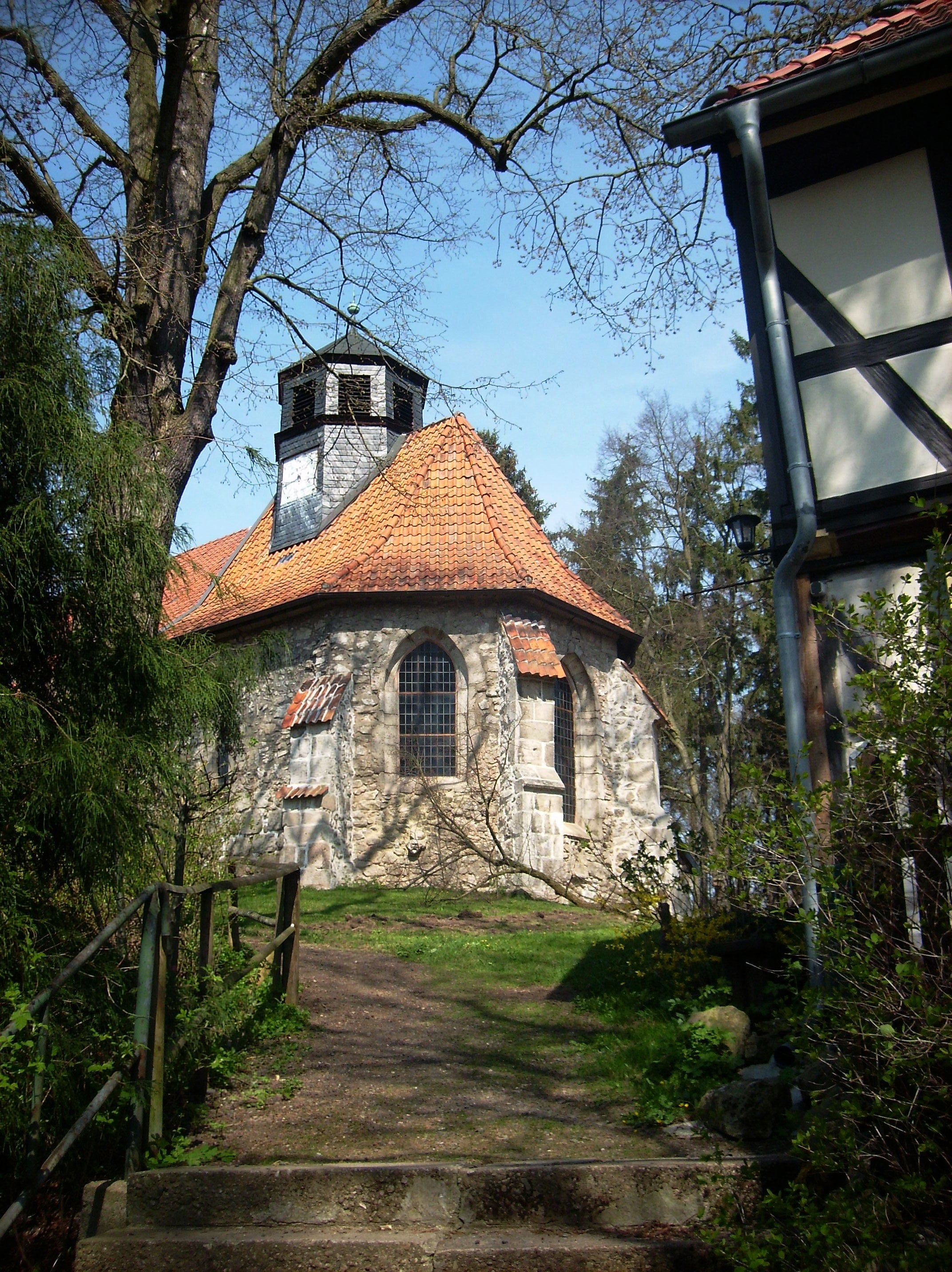 Frauenbergkirche (Church at Our Lady's Hill) in Ellrich (Nordhausen district, Thuringia)